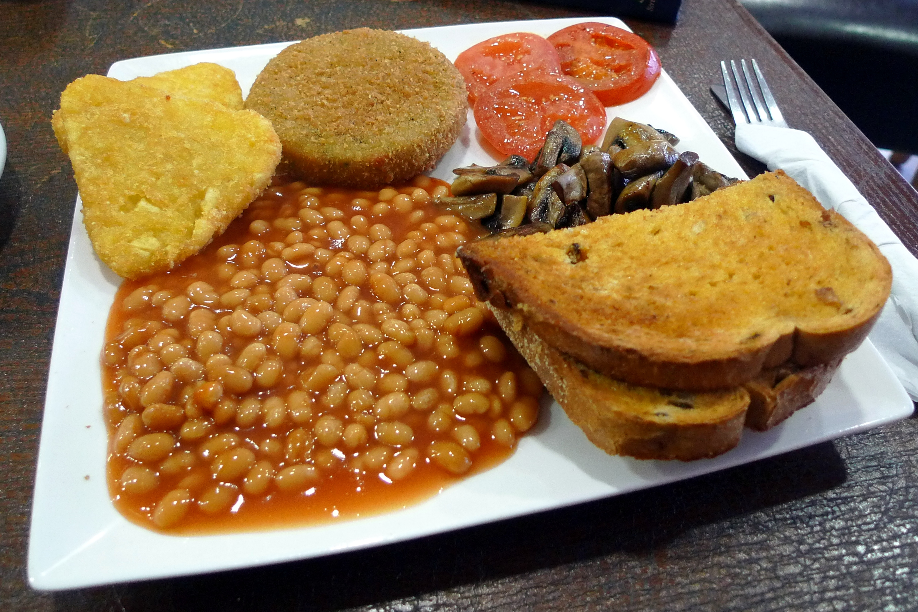 The vegetarian breakfast. Not very colourful, but decent. Includes the rare vegetarian burger patty. At Cosy, Great Portland Street.